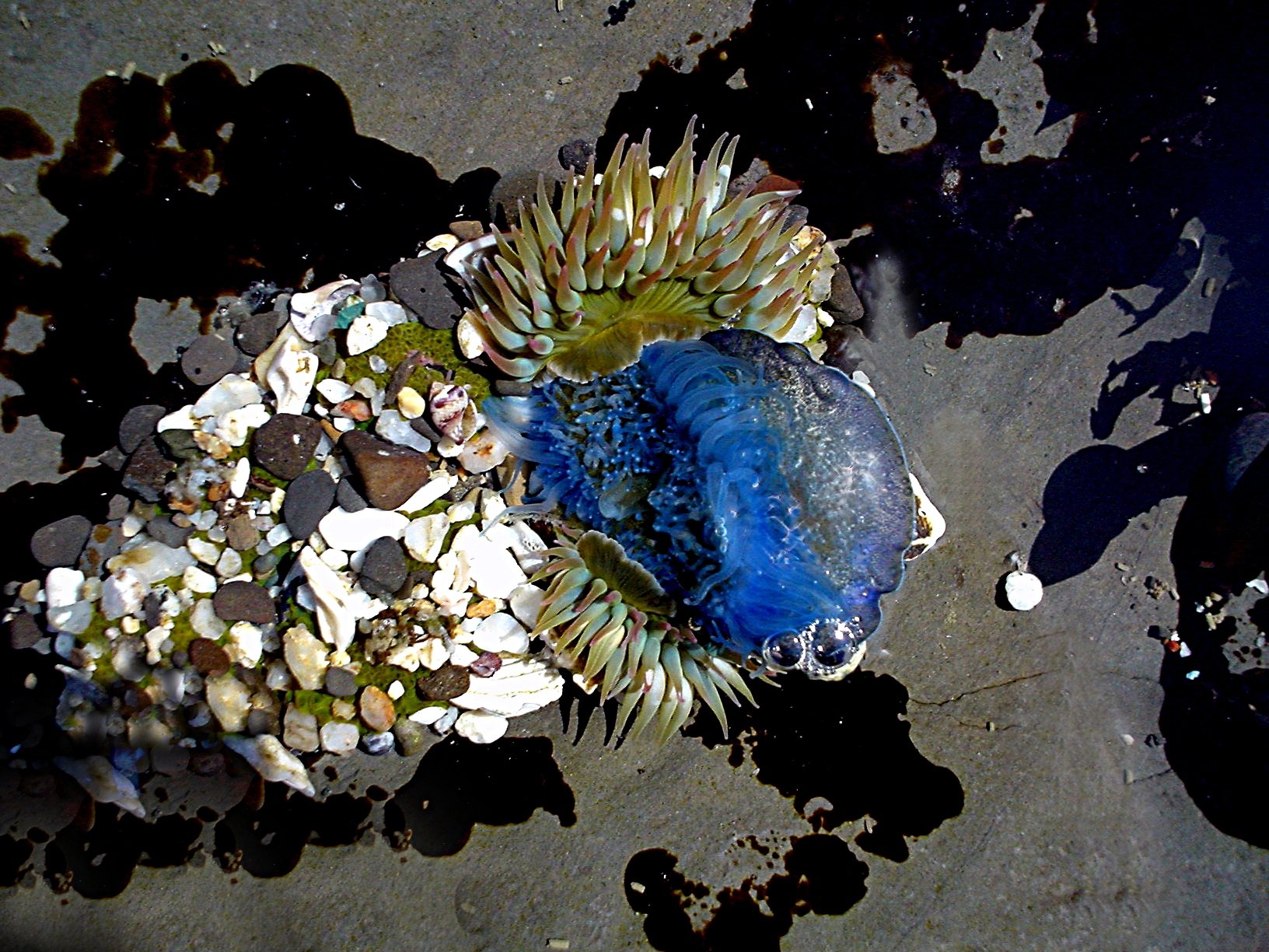 Sea Anemone,Anthopleura sola is in process of consuming a By the wind sailor Velella velella hydrozoan. By the wind sailor hydrozoans are usually found hundreds of miles offshore, but every spring the wind brings them closer to shore and then California beaches are covered by bright blue hydrozoans. Sea anemones feast on them at that time.